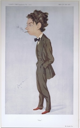 Caricature of Kenelm Foss Vanity Fair 17 Dec 1913. Caption read "Magic"